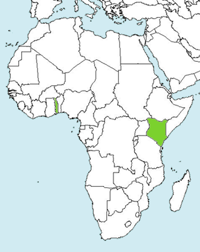 Conservative Laestadianism in Africa